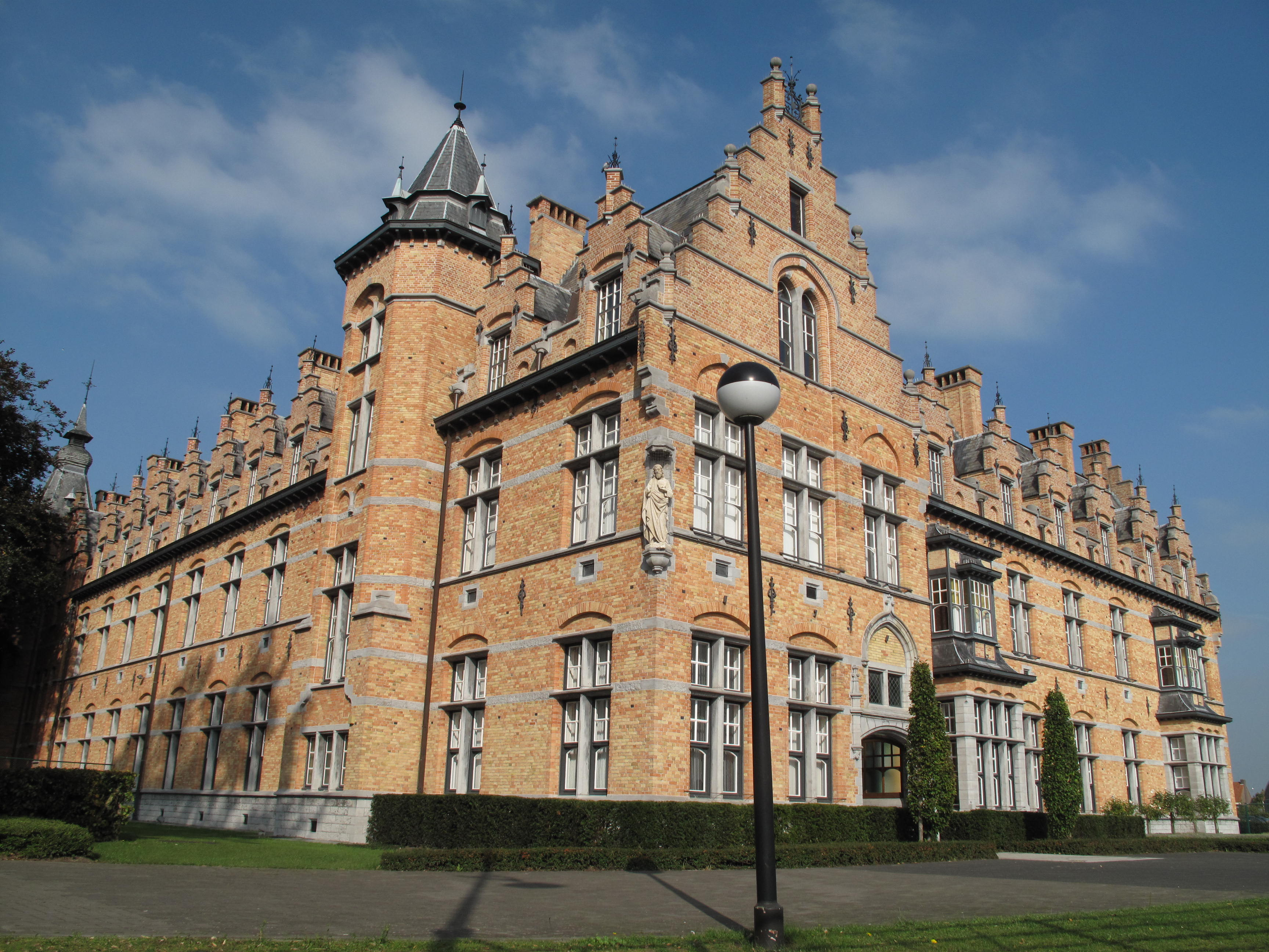 Eeklo, monumental office building